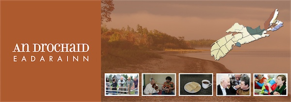 An Drochaid Eadarainn / The Bridge Between Us androchaid.ca